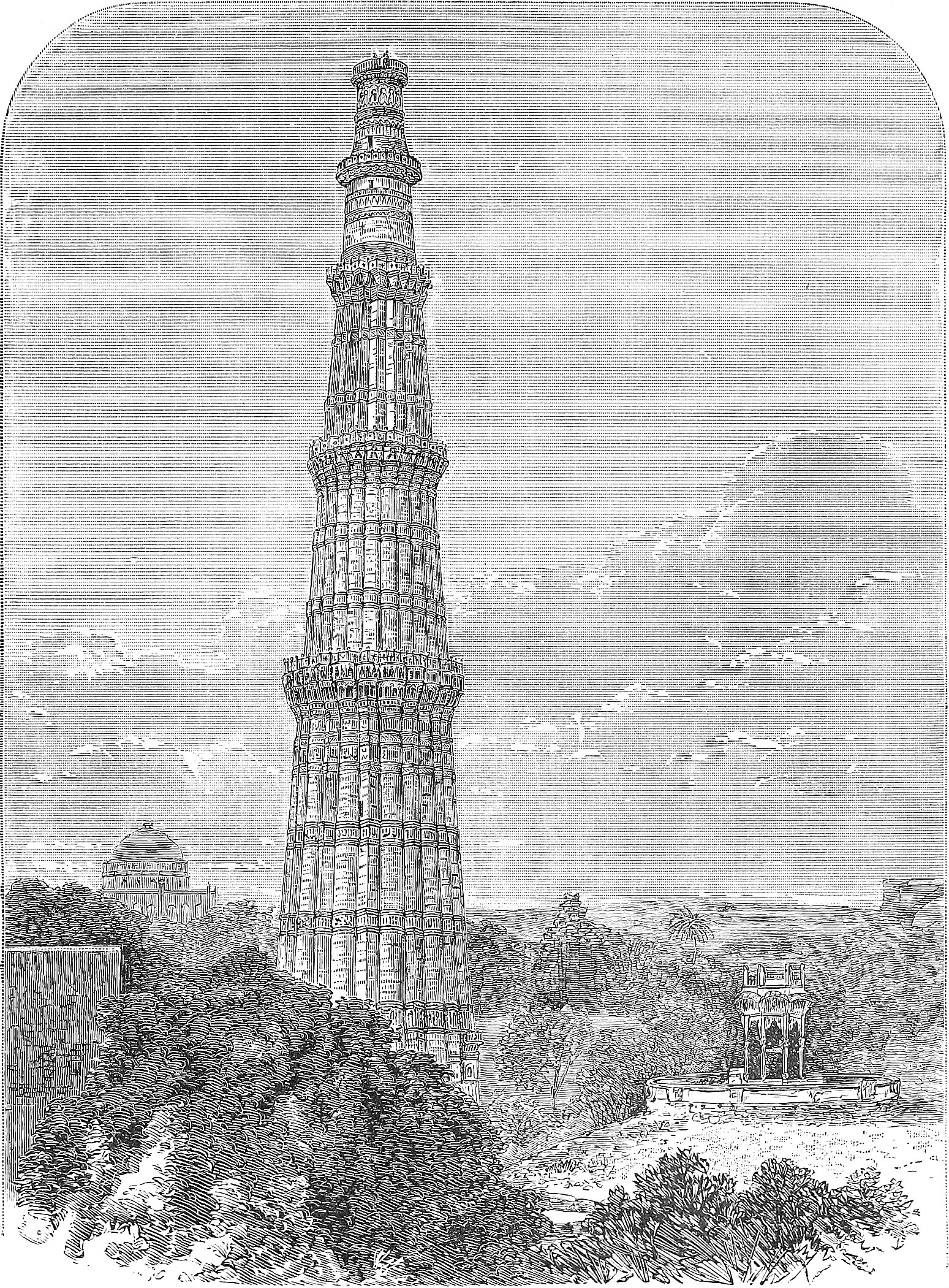 The Kootub.